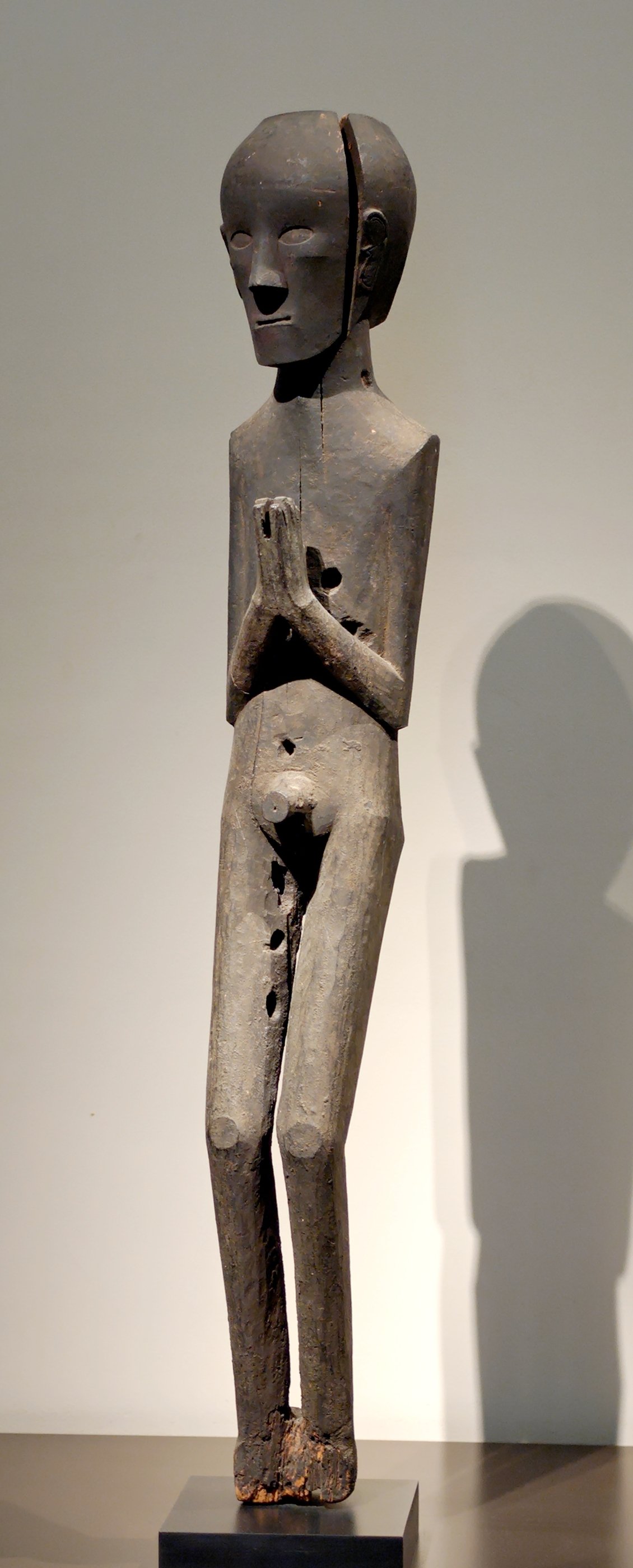 Magical figure of the Toba Batak people. It was probably used in combination with a container holding pupuk, the entrails of a ritually executed child: the pupuk gave power to the statue. Wood, Sumatra (Indonesia), middle of the 15th century.